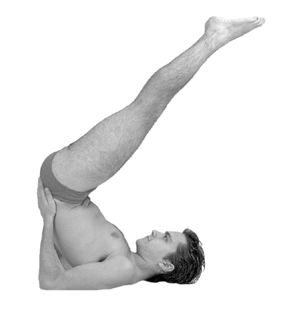 Viparita Karani